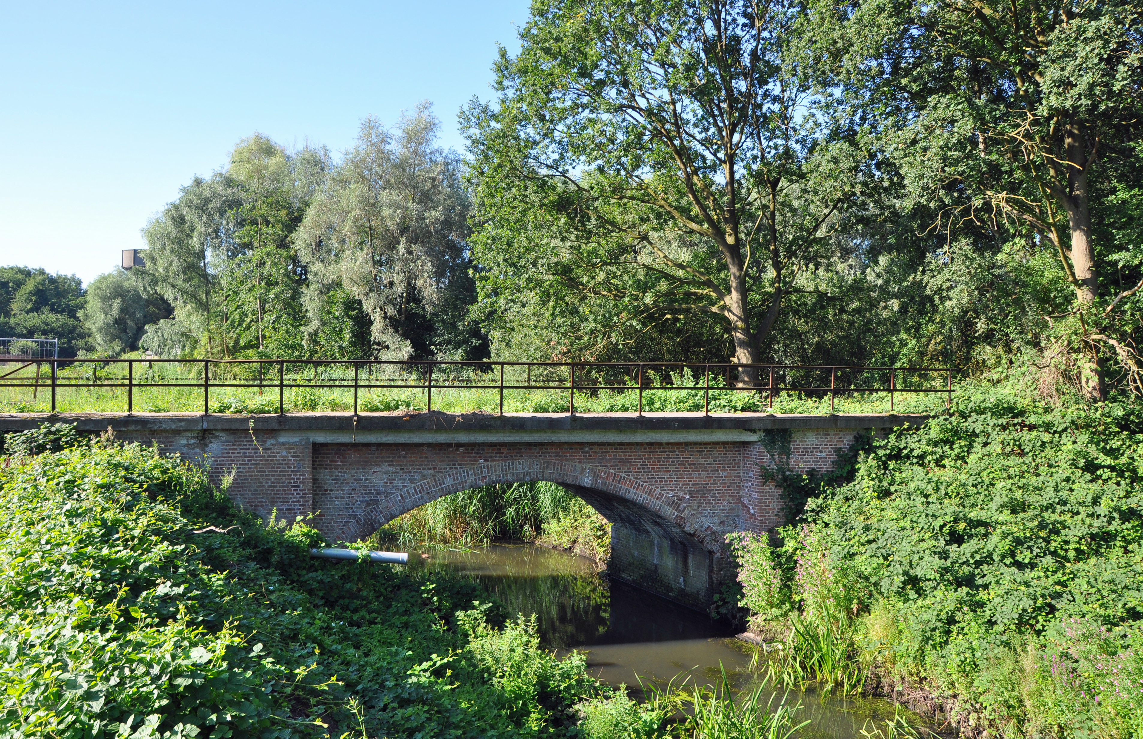 Former Belgian railway line 58 Bruges-Eeklo: the bridge on the Zuidervaartje in Steenbrugge (Bruges, Belgium)